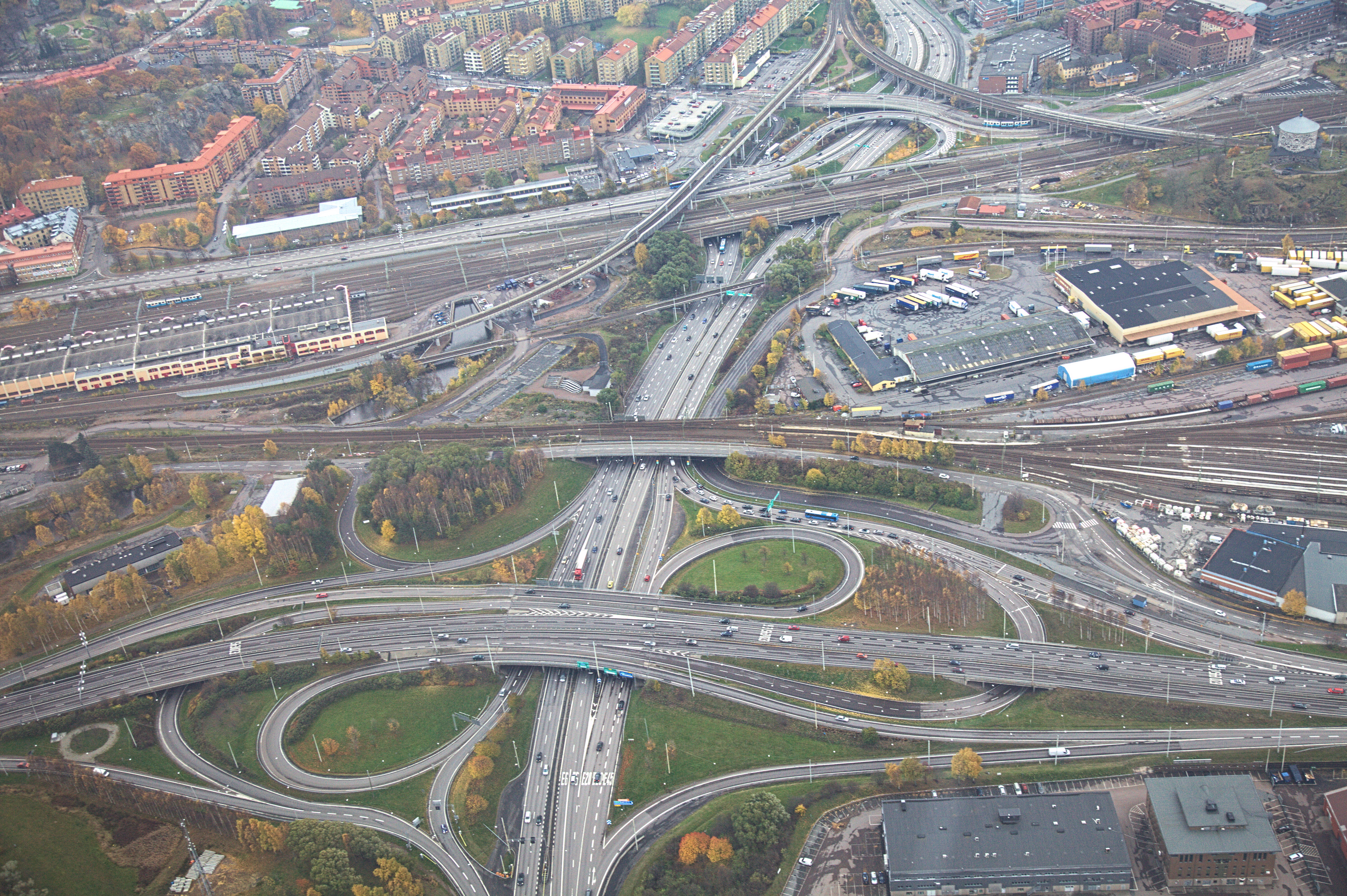 Photo taken on a helicopter over Gothenburg. Gullbersmotet and Olskroksmotet. View from north.